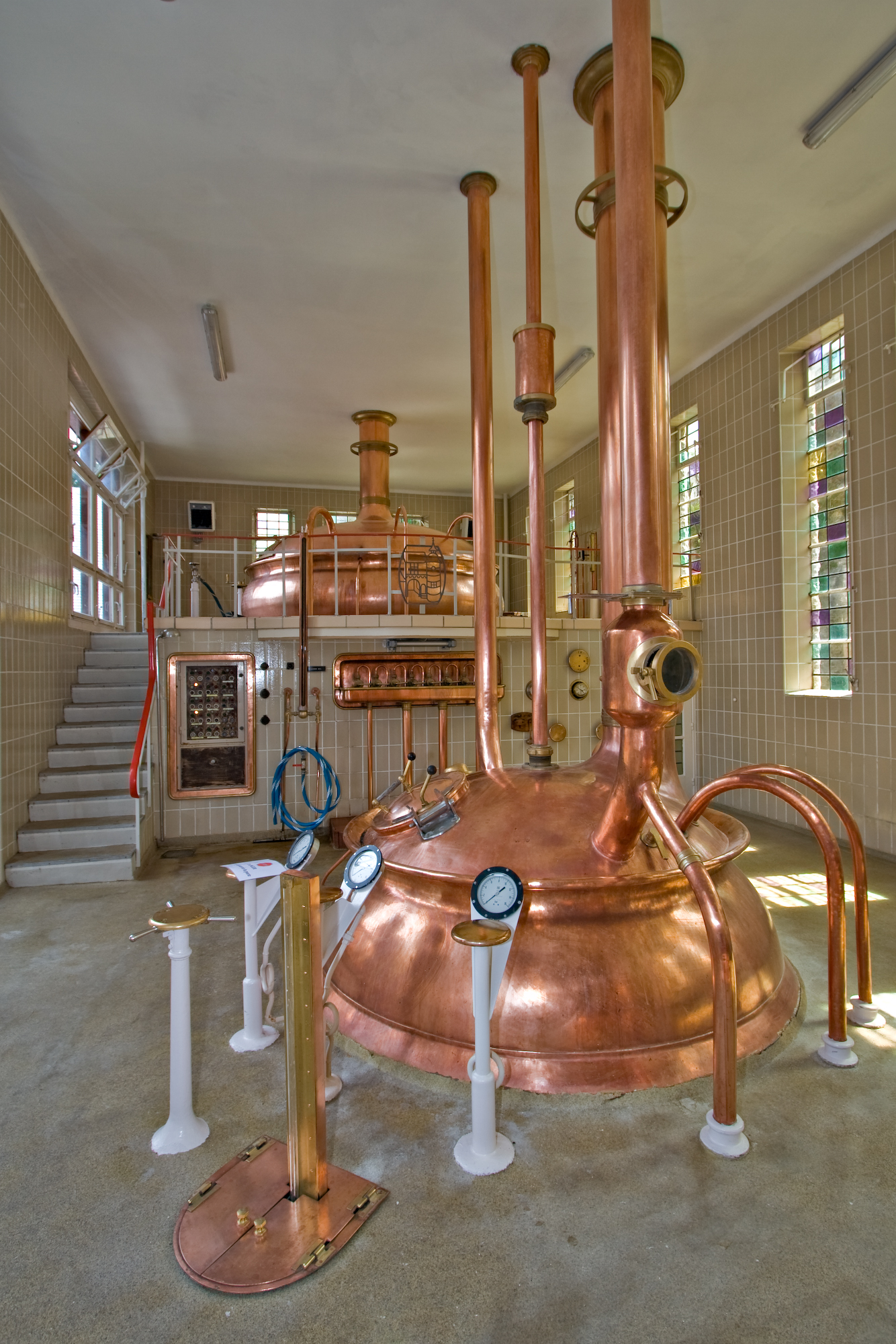 Rochefort Trappist Brewery in Abbey of Our Lady of Saint-Remy, Wallonia, Belgium. Brewing is the main source of income for the monastery since the 16th century. The brewery was renovated in 1952 and produces high fermentation beer. The Cistercian Order of the Strict Observance is known for their seclusion and the brewery is not accessible to the public.